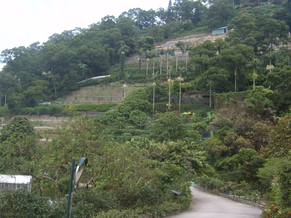 Kadoorie Farm and Botanic Garden, Lam Tsuen, Tai Po, Hong Kong. Photo taken by myself (User:Sl) on 23 September 2006. 香港大埔林村嘉道理農場暨植物園果園。